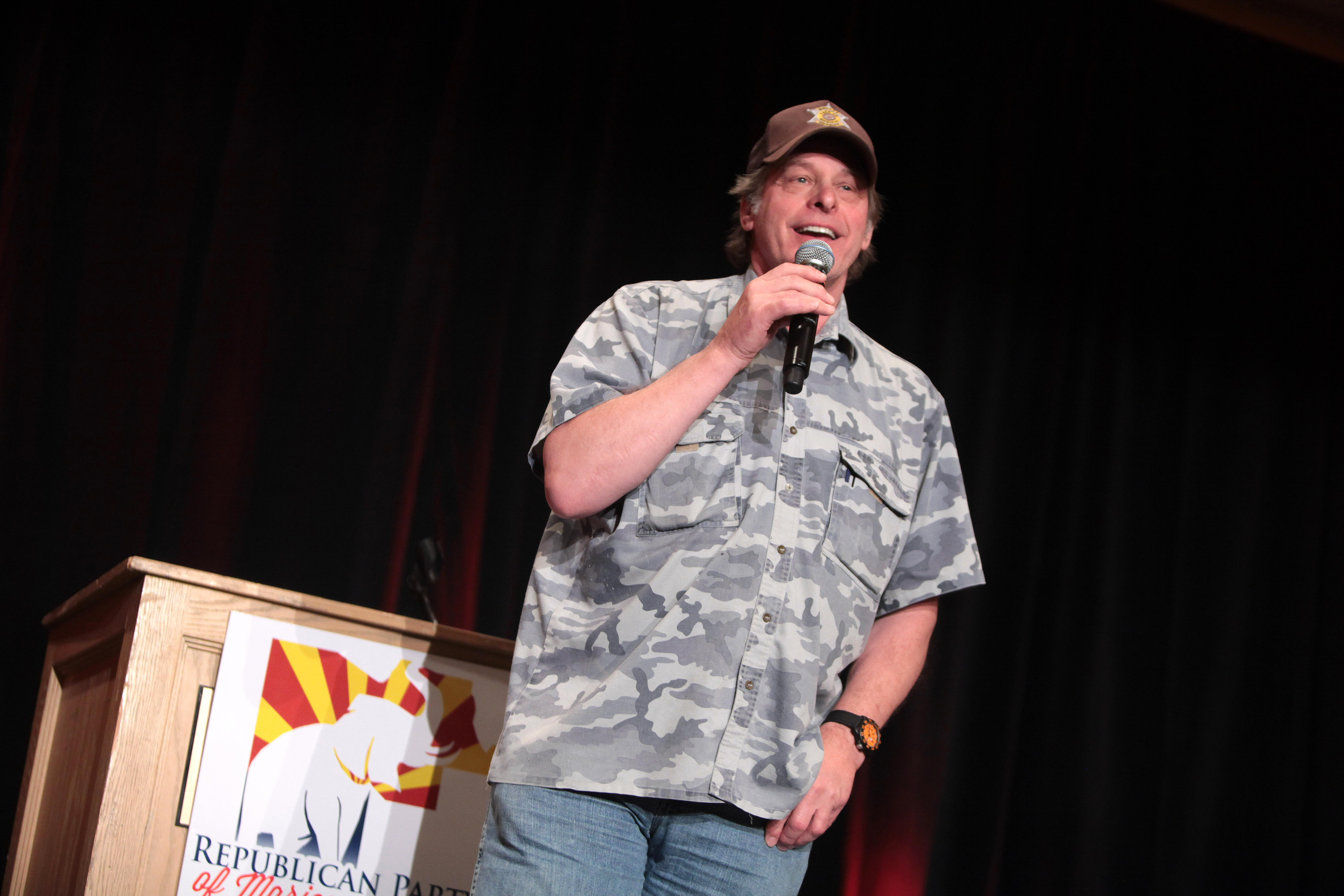 Ted Nugent speaking at the 2015 Maricopa County Republican Party Lincoln Day dinner in Scottsdale, Arizona.